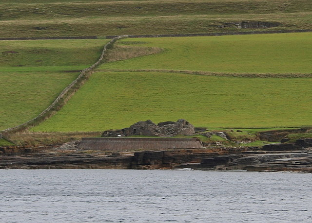 Mid Howe Broch